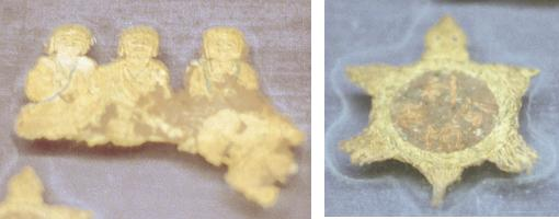 Two fragment Embroideries from Tenjyukoku Embroidery, Attriibuted to replica in 13th century from Asuka period original. Chuguji Temple, Nara, JAPAN